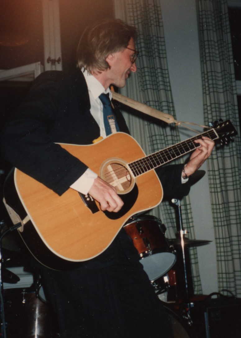 Börge Ring (born 1946), Swedish teacher, composer, musician and former priest in the church of Sweden. Here performing before students at Södra Latin upper secondary school in Stockholm 1987.